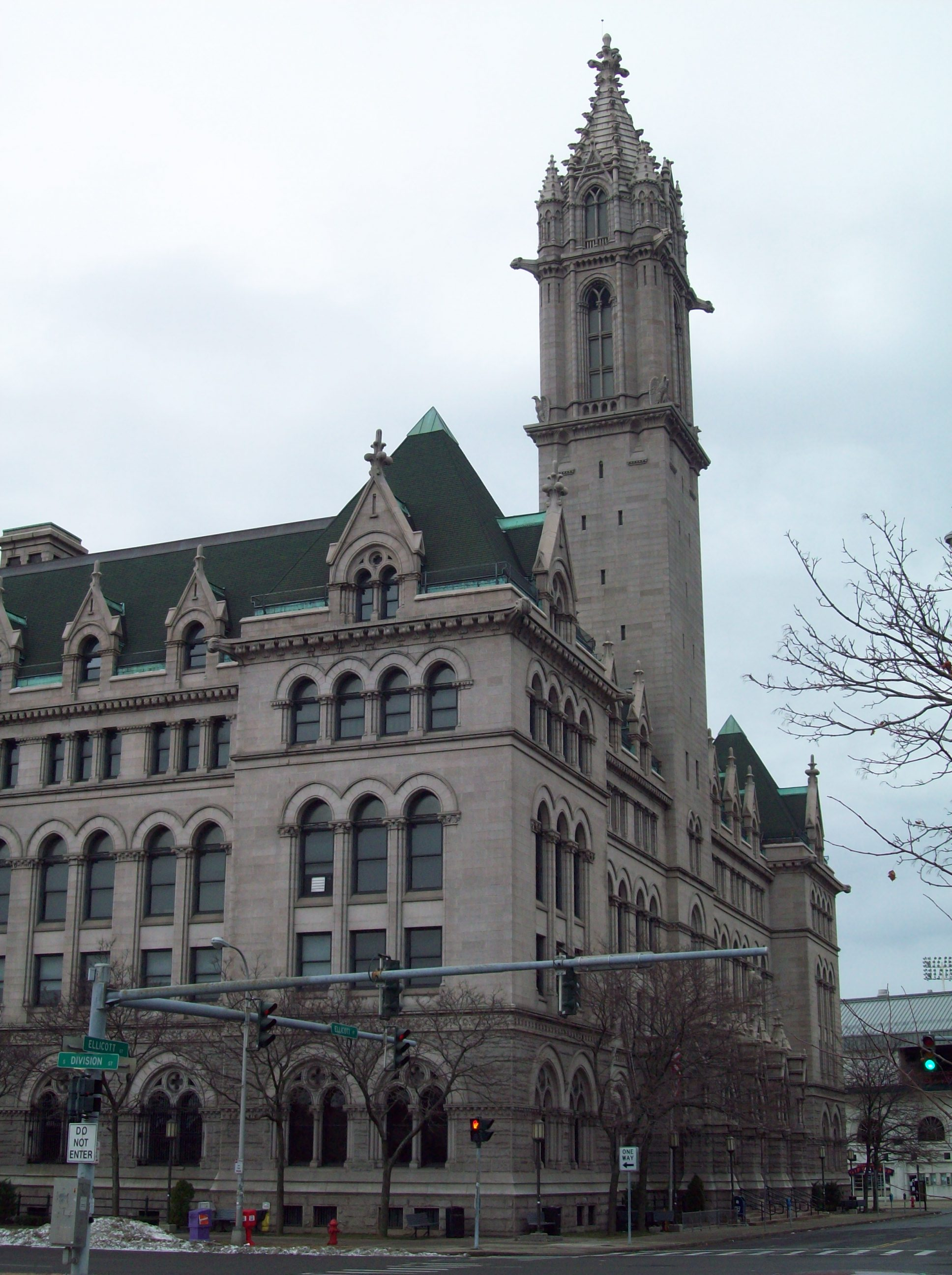 Old Post Office, Buffalo NY, December 2009